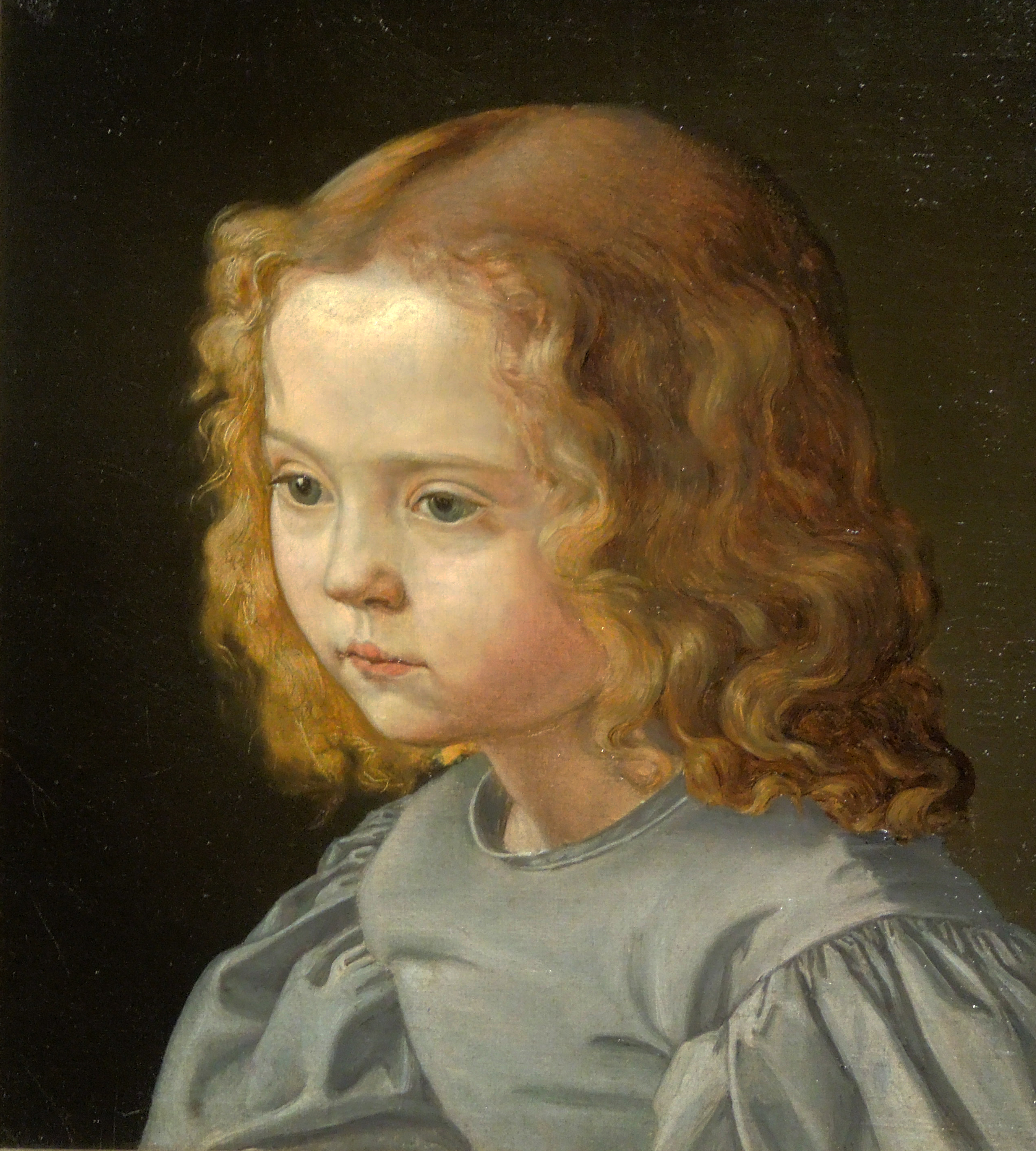 Robert Reinick - Girl's Head, c. 1850, oil on cardboard-backed canvas